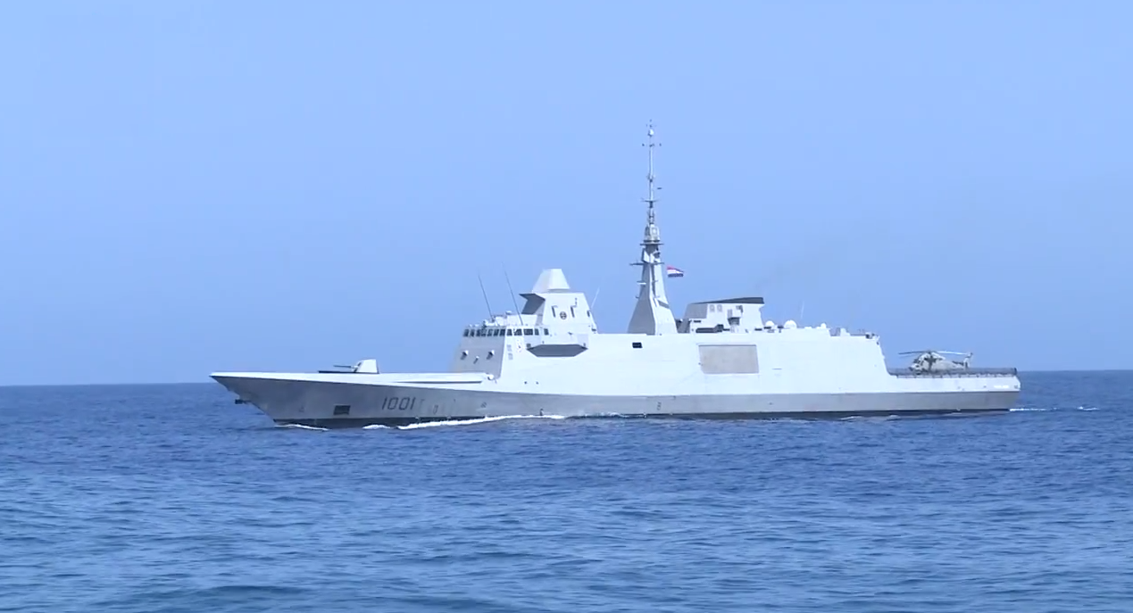 fremm tahya misr during ramses II exercise with french navy